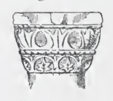 Khirbet Beit Zakariyyah, Palestine